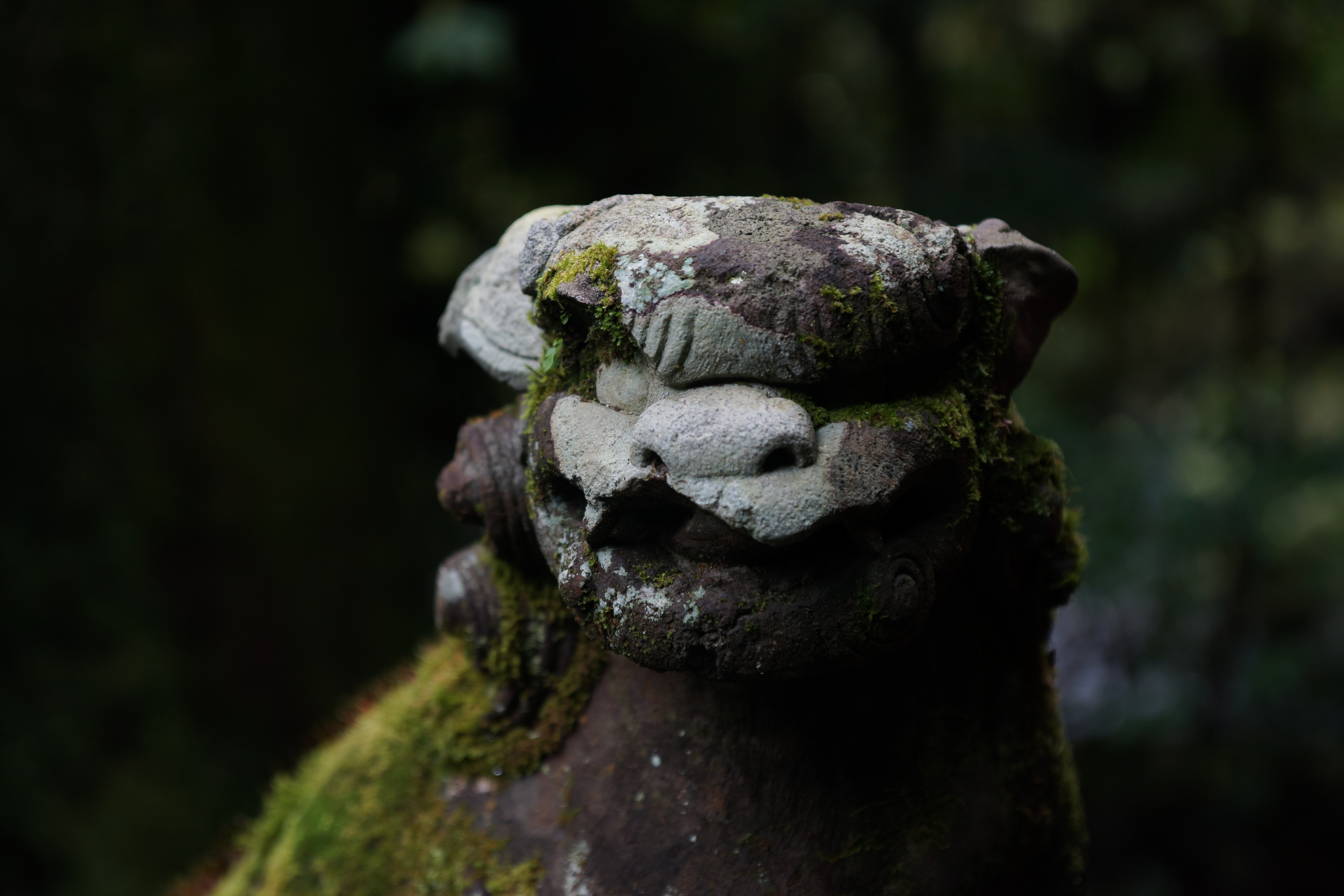 Komainu dog in Hakone Shrine of Peace